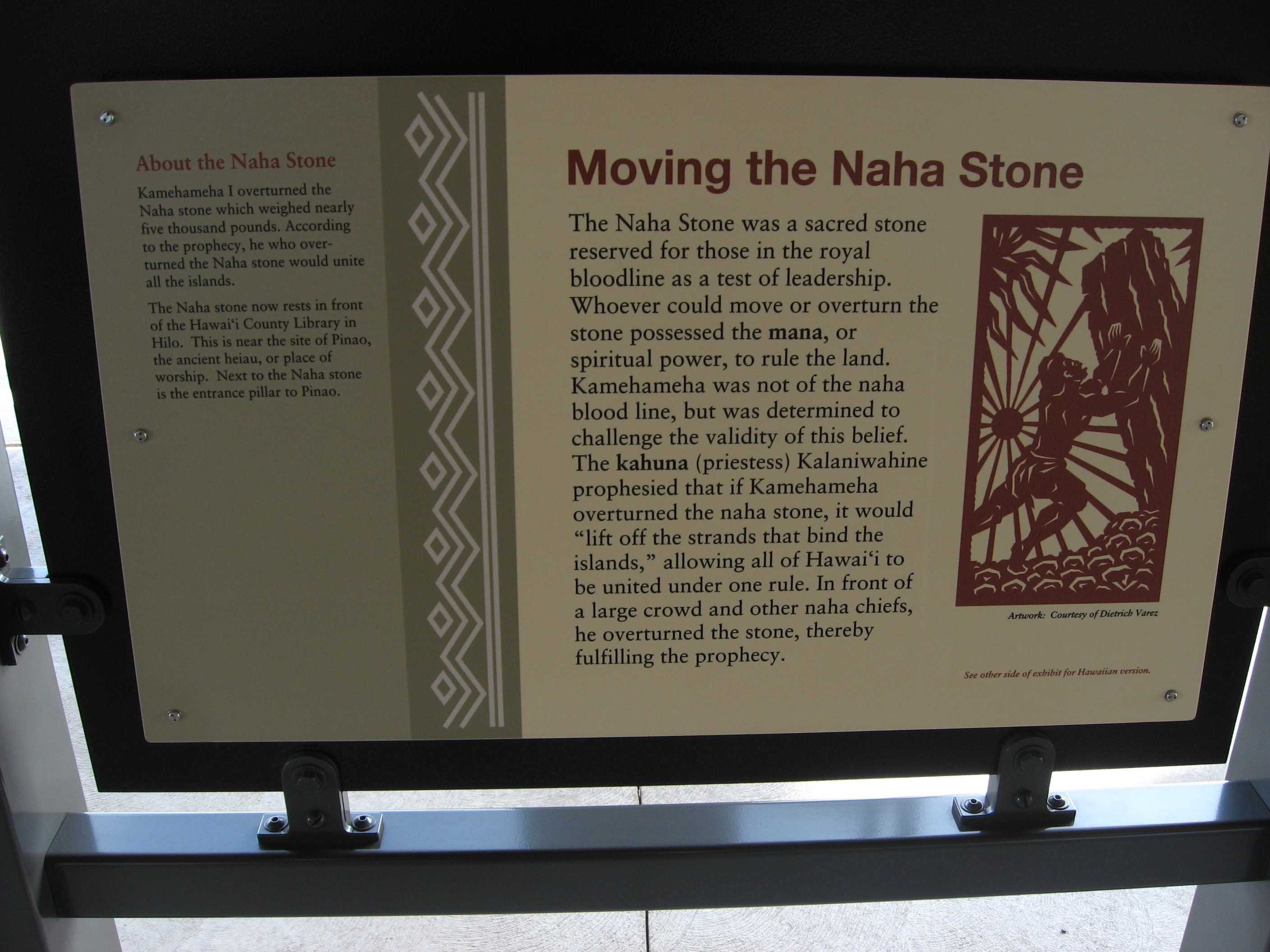 I didn't read this sign until I downloaded my photos later. I wish I had. I would have looked for the Naha Stone in Hilo later that day.